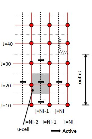 A control volume at an exit boundary